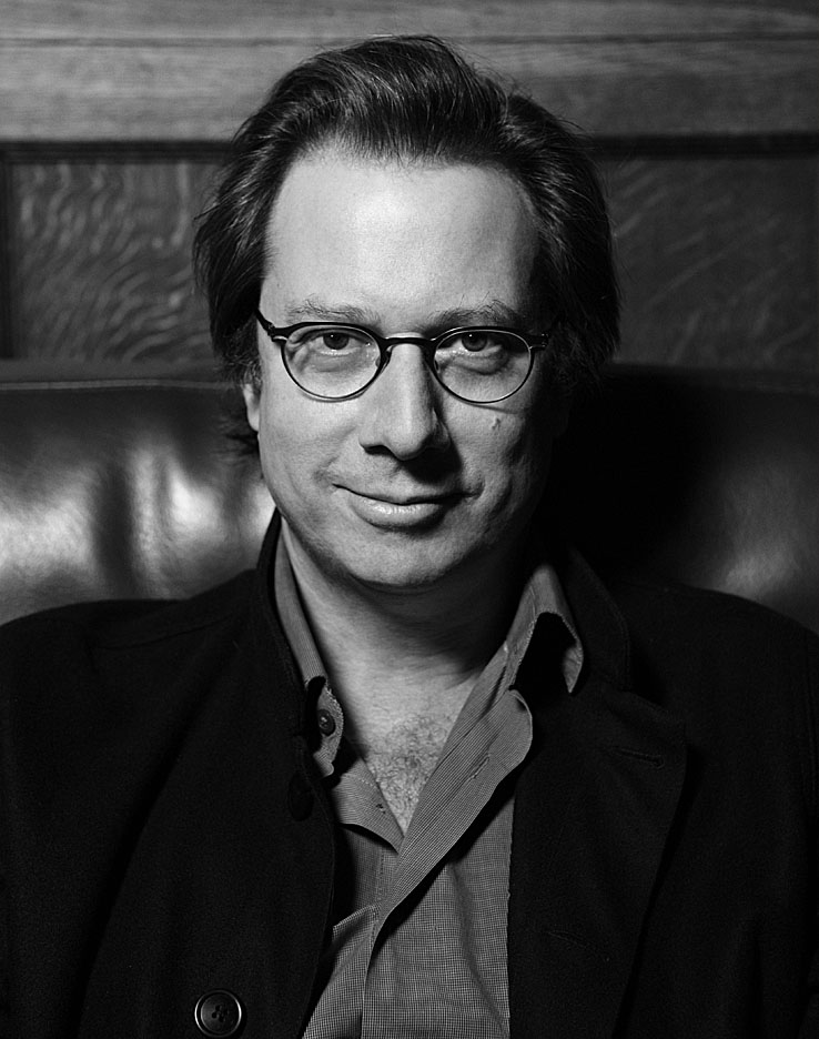 Photo credit: Tom Watson